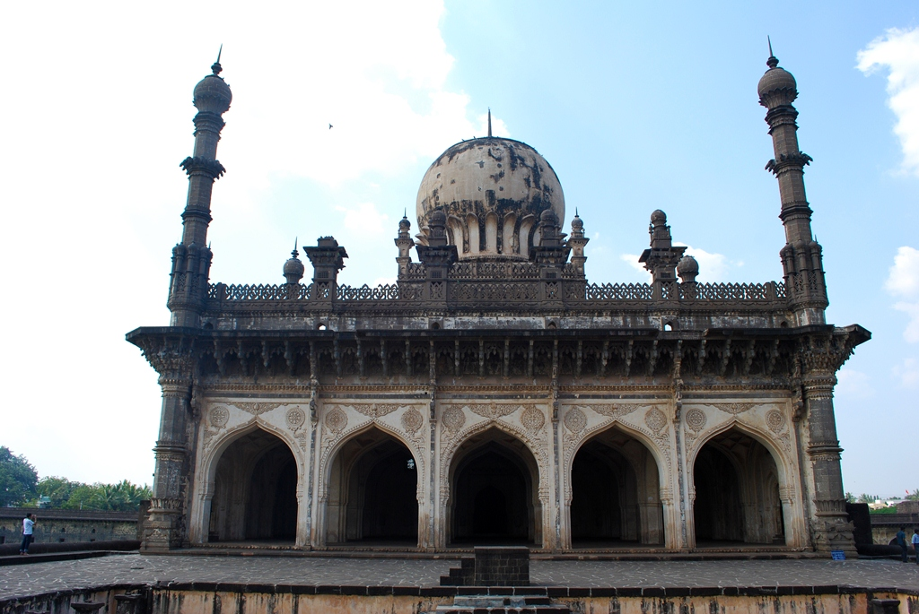 Ibrahim Rauza at Bijapur